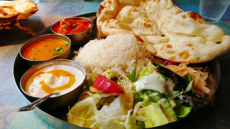 North Indian style vegetarian thali served in a restaurant in Tokyo, Japan